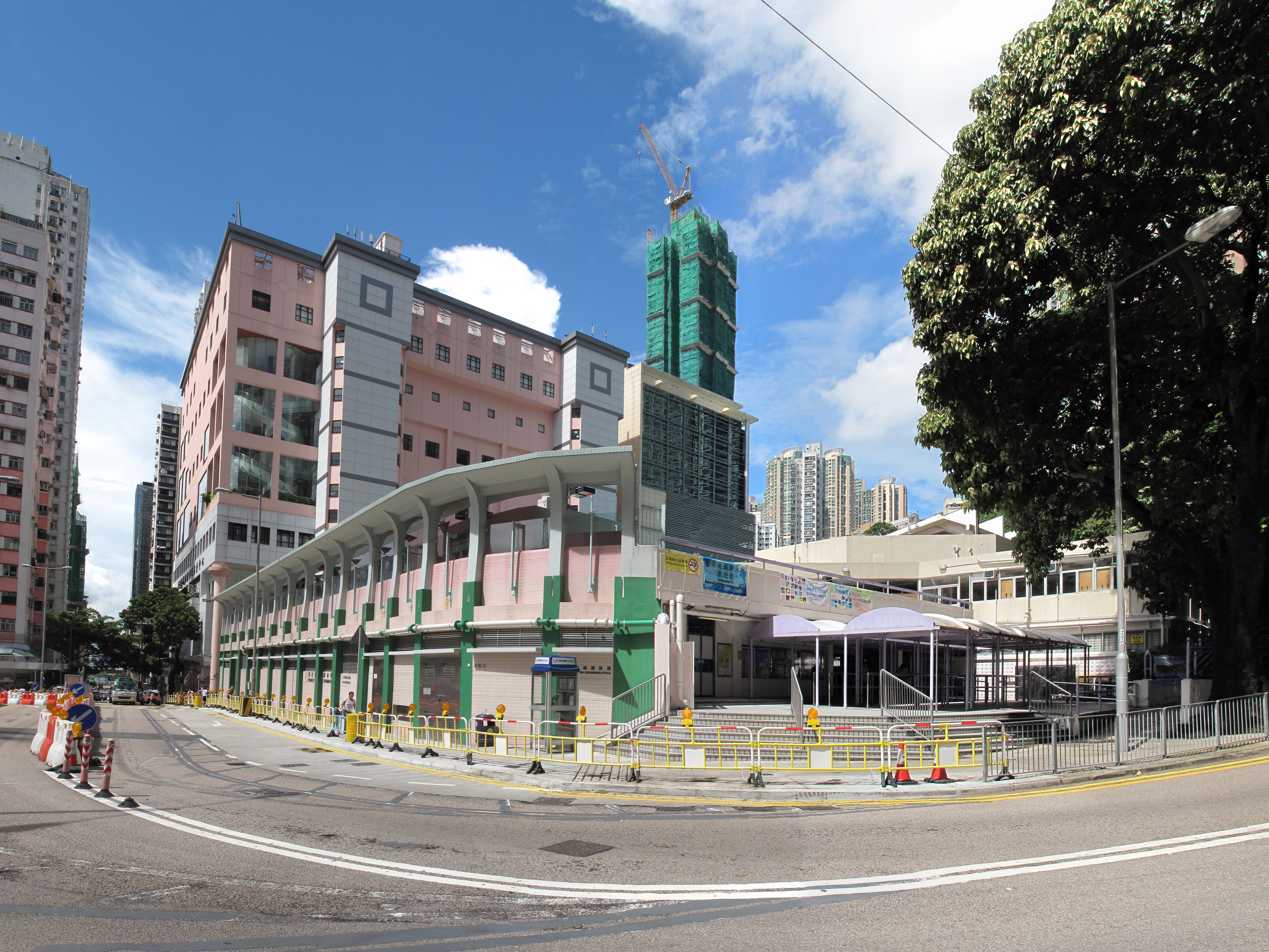 Panoramic photo of Smithfield Municipal Services Building and Kennedy Town Swimming Pool, combined from 4895531851, 4896132794, 4896137330, 4895546863, 4895552791 and 4896153962